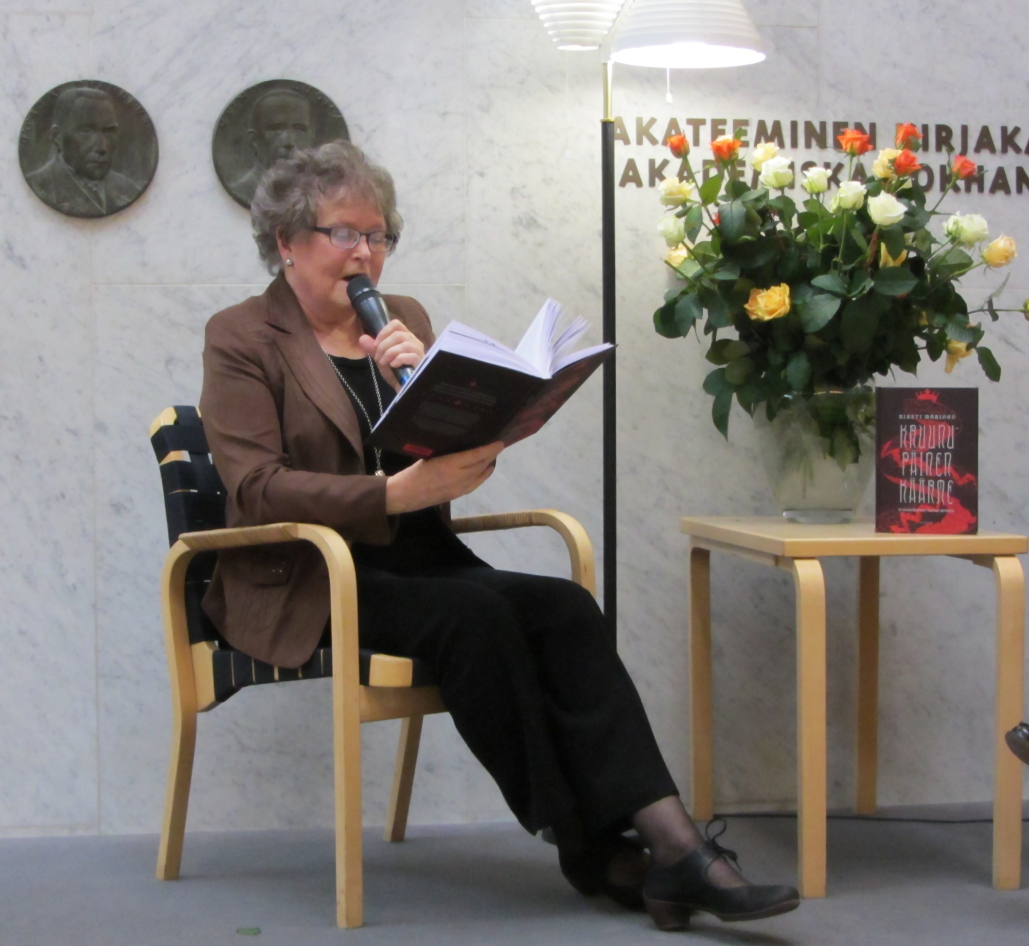 Finnish non-fiction writer and teacher Kirsti Mäkinen is reading her book on World Book Day in Helsinki in 2012